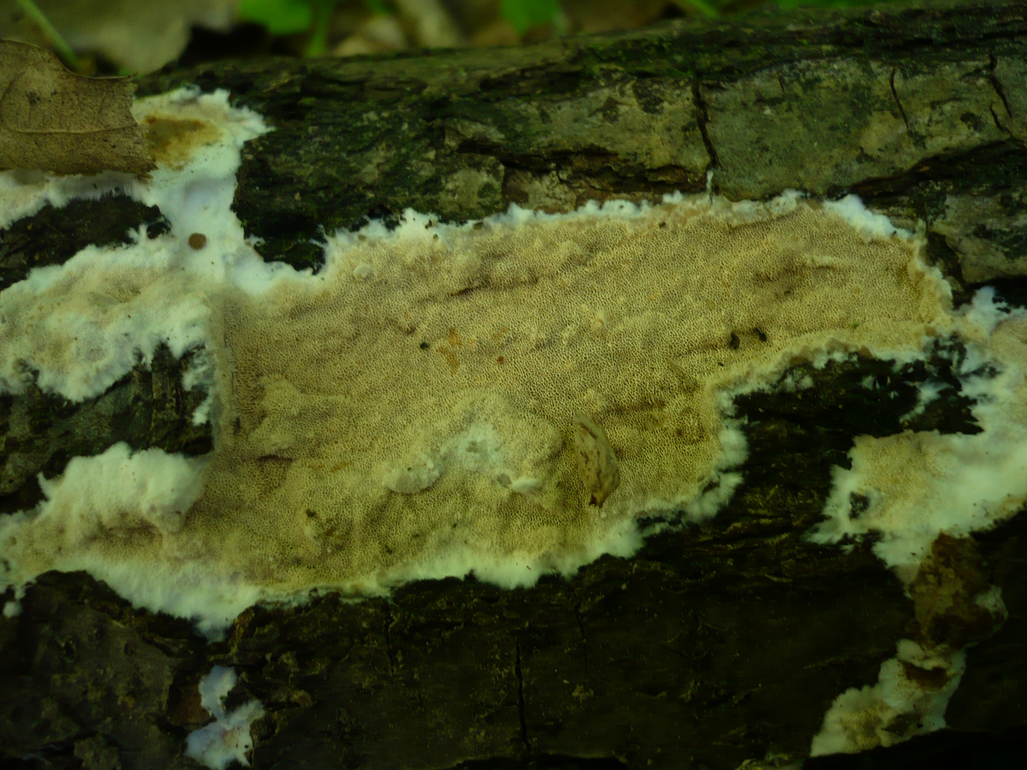 The fungus Gloeoporus dichrous. Specimen photographed in Draßburger Kogel,Draßburg, Bezirk Mattersburg, Burgenland, Austria.